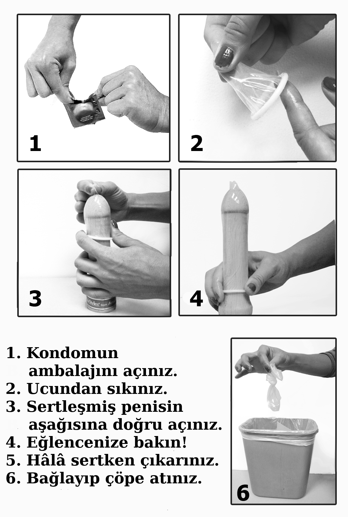 Photographic guide and brief Turkish description of how to put on a male condom.